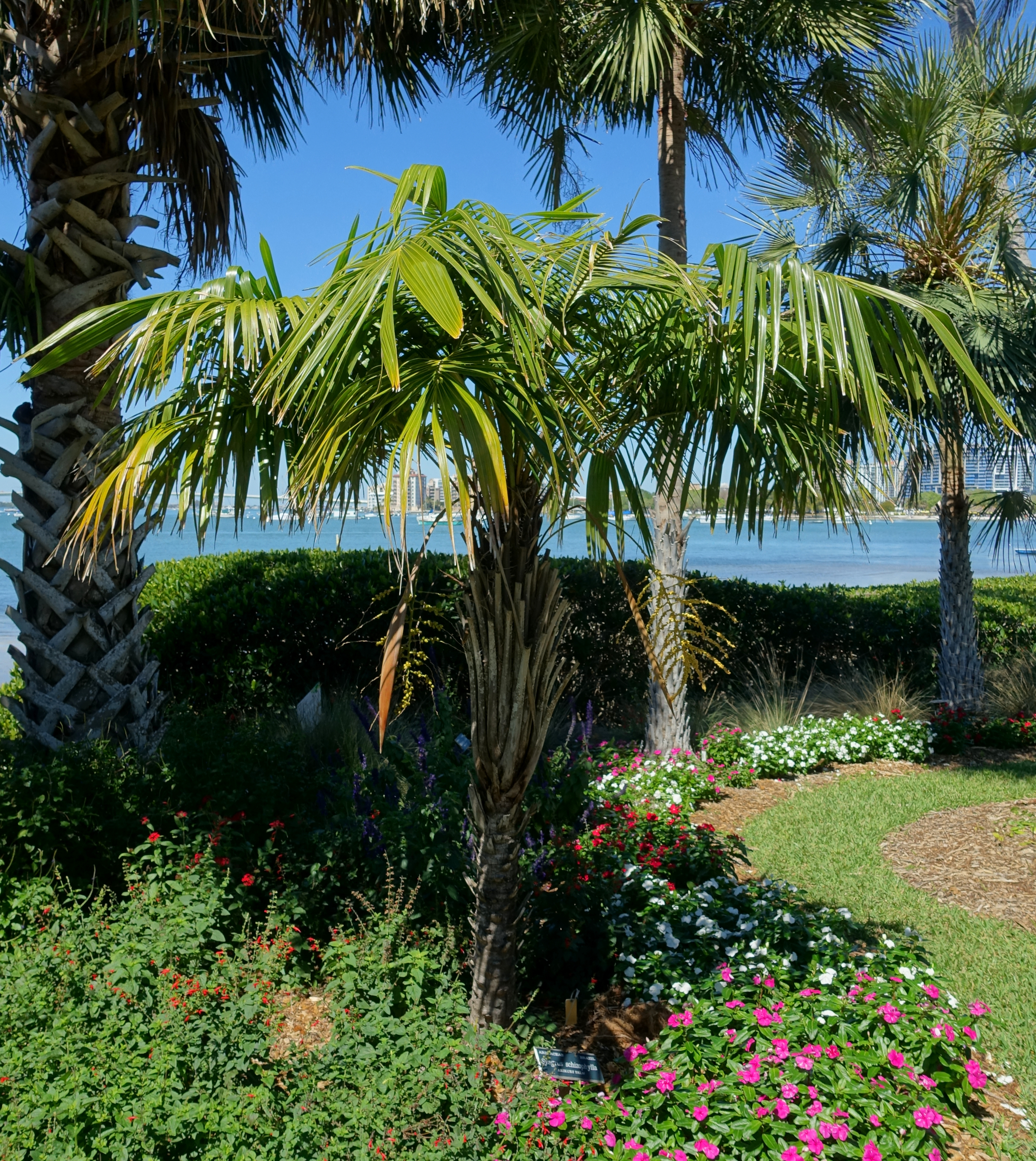 Botanical specimen in the Marie Selby Botanical Gardens - Sarasota, Florida, USA.